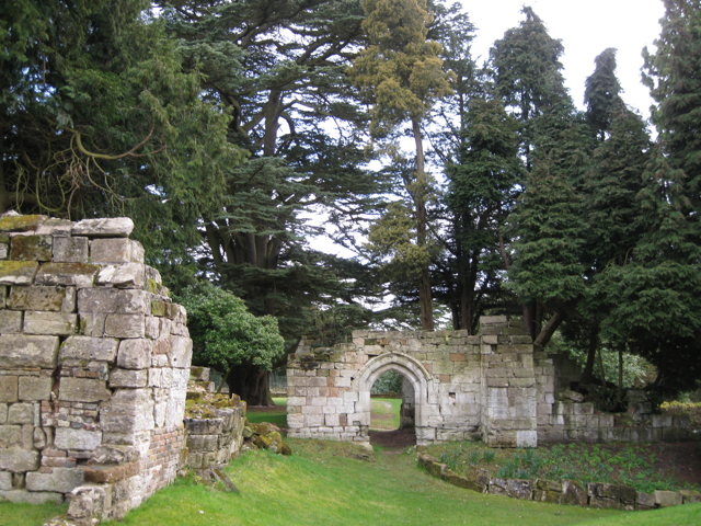 Fragments of cloisters, Wroxall Abbey Together with the north aisle of the abbey, now Wroxall church, this is all that remains of the 12th century Benedictine nunnery at Wroxall—a picturesque feature of the Victorian gardens.